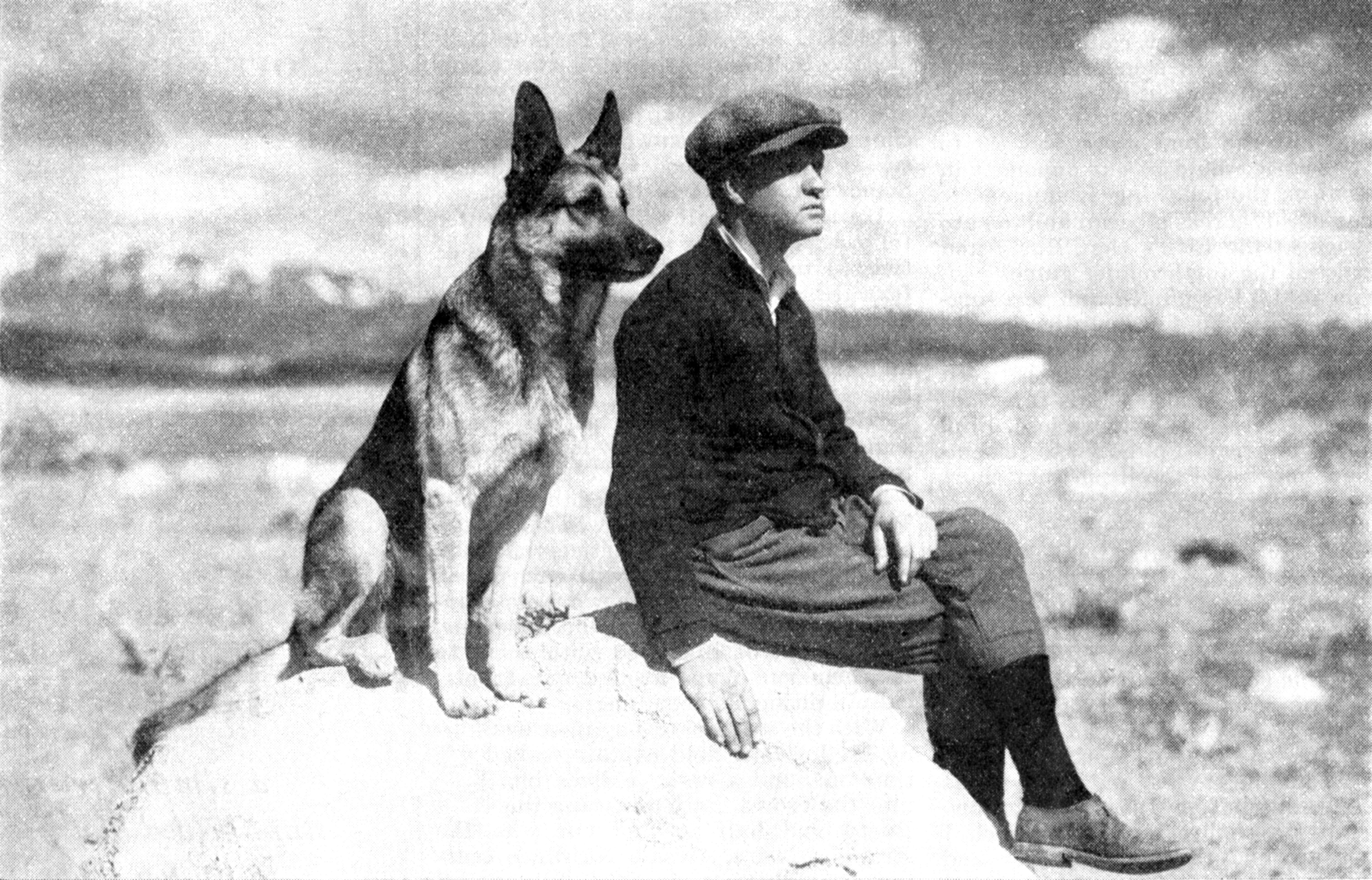 Photograph of Strongheart (1917–1929) and Larry Trimble, the lead photograph in the first of a series of articles Trimble wrote for The American Boy magazine Photograph is likely to have been taken between 1920 and 1926; Trimble's attire appears to match what he wears in a photograph published in December 1921